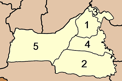 Map of Amphoe Khian Sa, Surat Thani Province, Thailand, with the tambon (communes) listed. Khian Sa (เคียนซา) Phuang Phrom Khon (พ่วงพรมคร) Khao Tok (เขาตอก) Aran Kham Wari (อรัญคามวารี) Ban Sadet (บ้านเสด็จ)